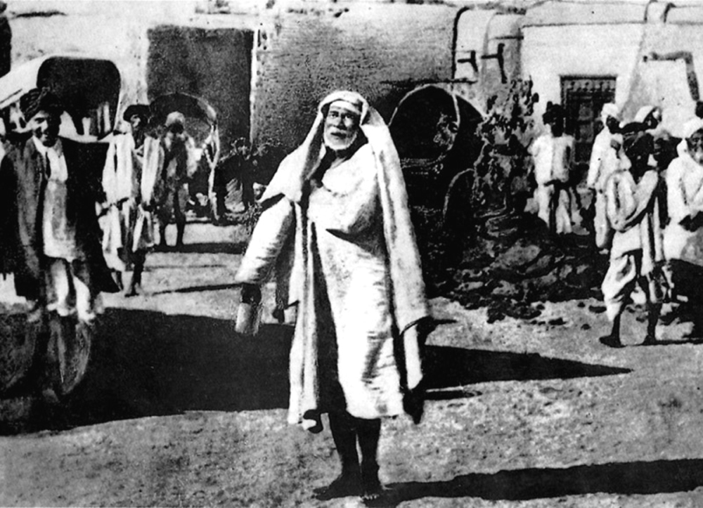 Sai Baba of Shirdi